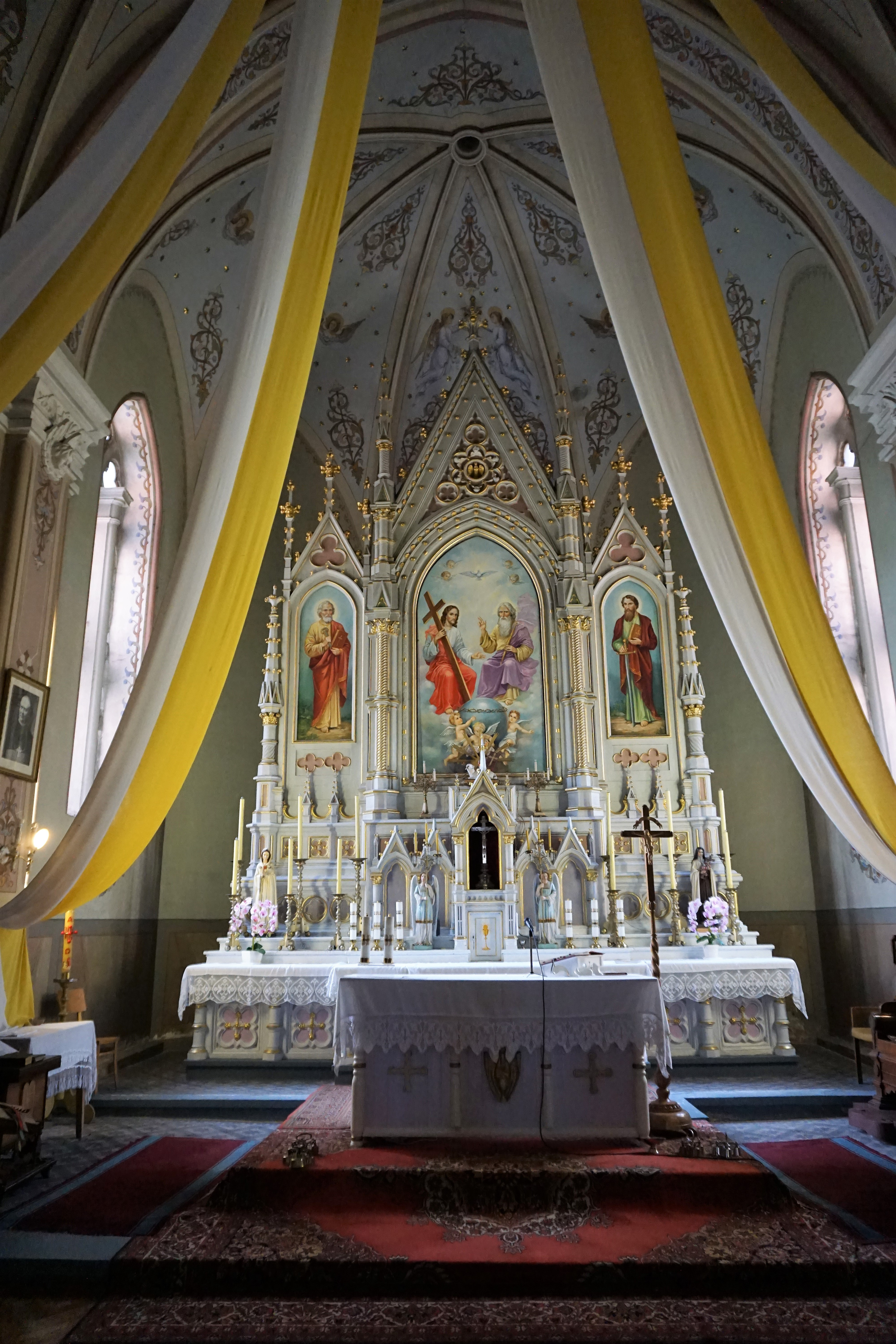 Central altar of the Holy Trinity church in Užpaliai, Lithuania